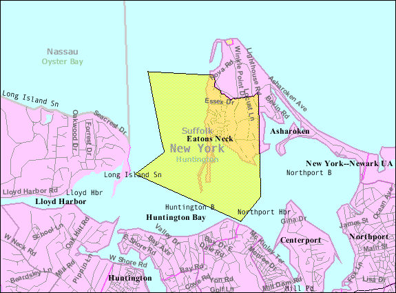 U.S. Census 2000 reference map for Eatons Neck